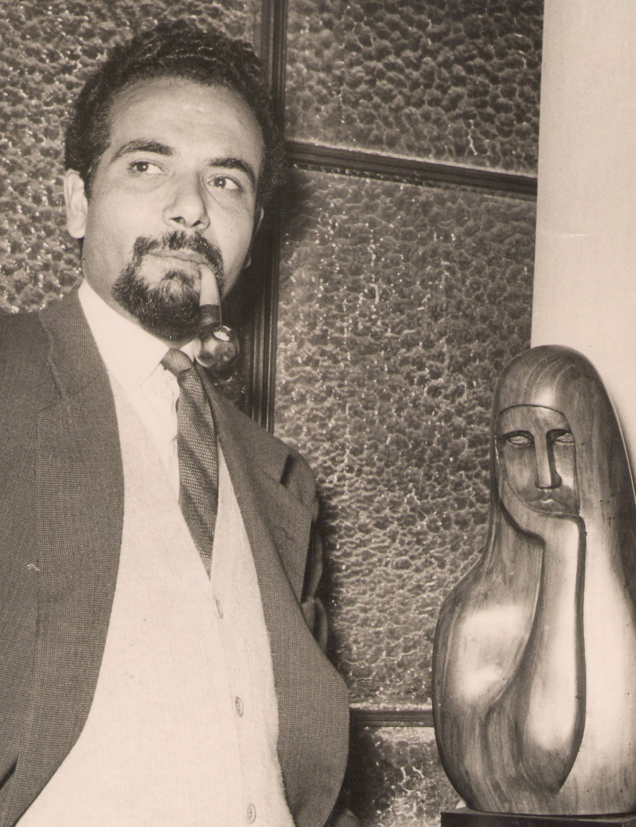 This is picture showing Egyptian Sculptor Gamal El-Sagini Standing beside one of his statues